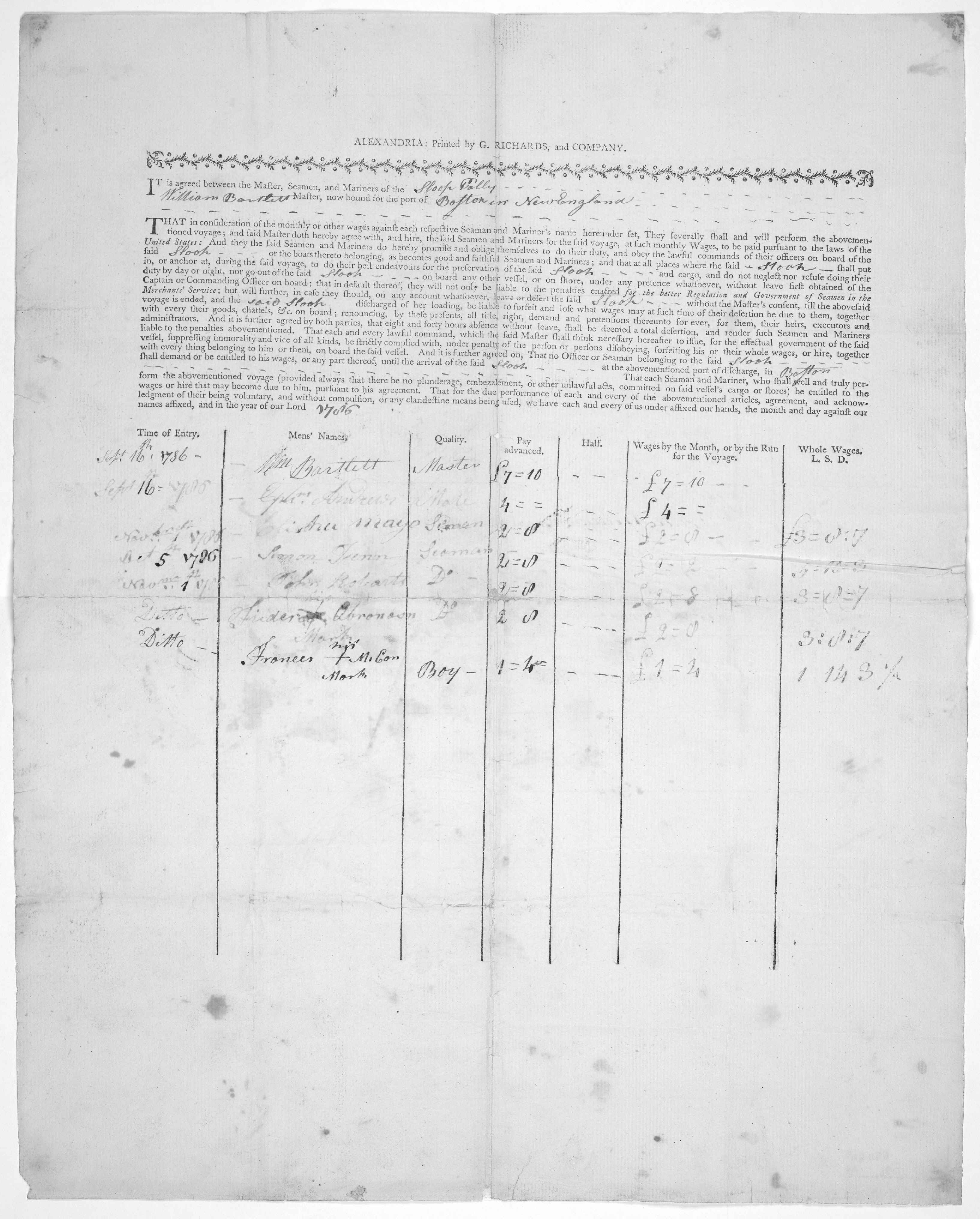 Shipping articles for the Sloop (Calley?) on a voyage to Boston in 1786.